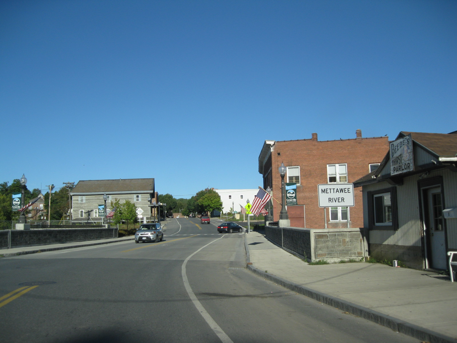 The local alignment of New York State Route 149 heading through the local communities near the Mettawee River in Granville, New York. The bridge is newer than the highway as evident.